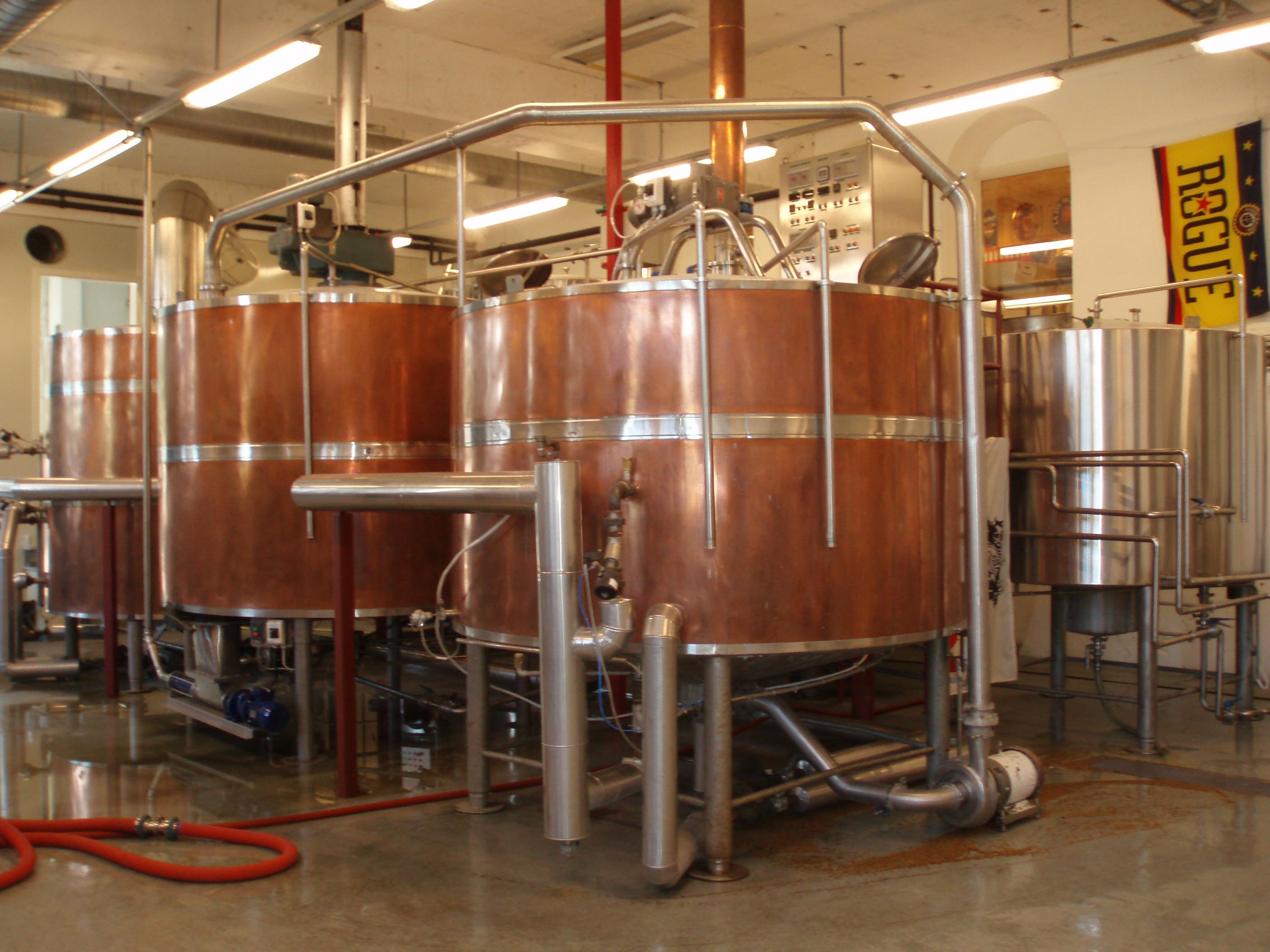 From a modern minor brewery (Nøgne Ø) Part of the brewing prosess - After mashing - before storing.